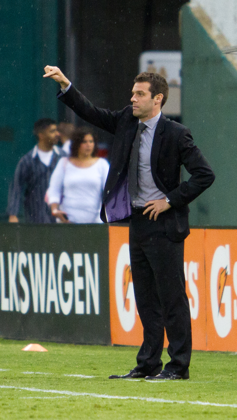 D.C. United head coach, Ben Olsen communicating with players during a regular season match against the Toronto FC on August 6, 2011 at RFK Stadium in Washington, D.C..